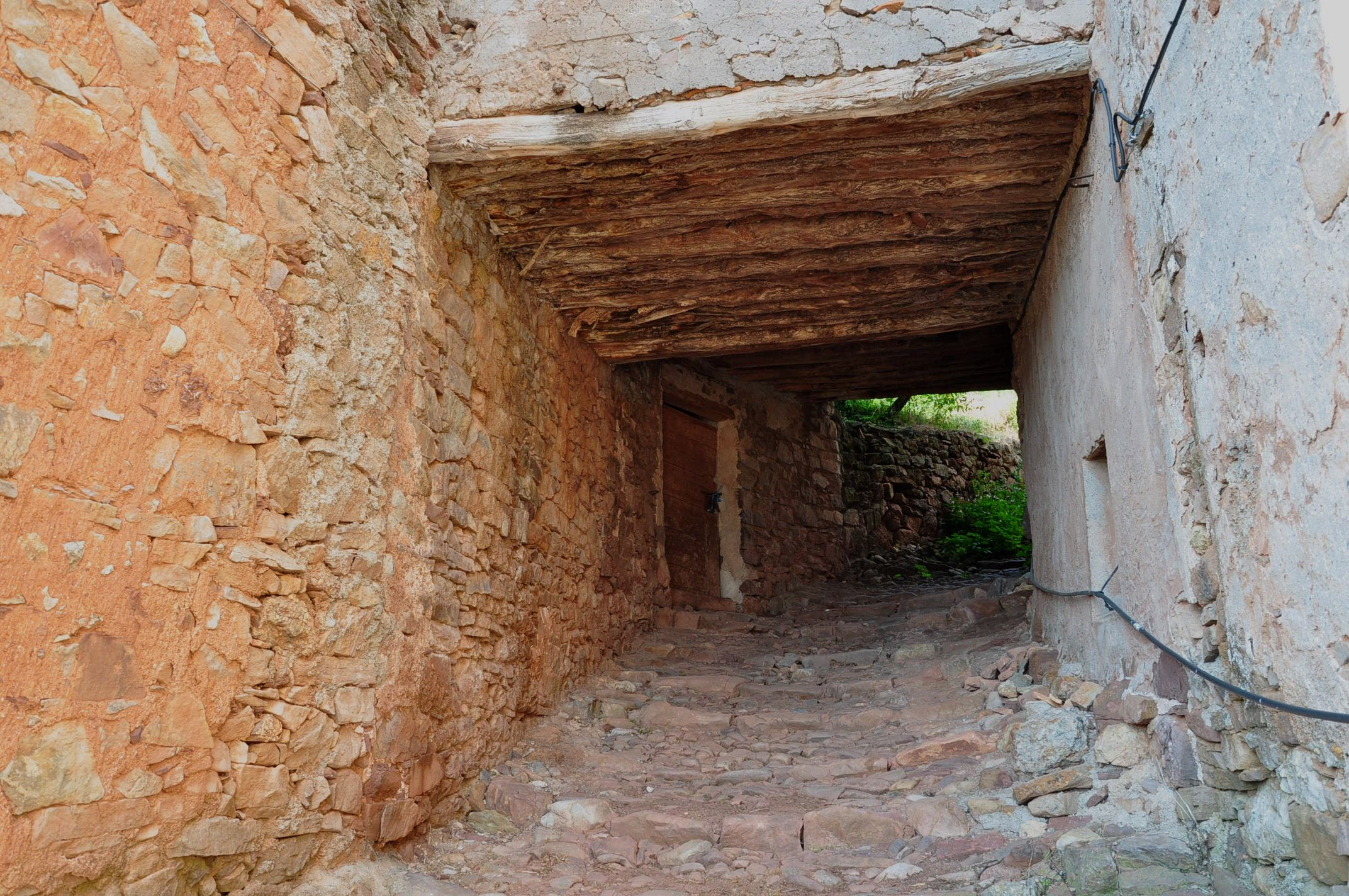 Covered alley in the village of Igüerri in the Pyrenees (municipality El Pont de Suert, district of Alta Ribagorça, Catalonia, Spain).